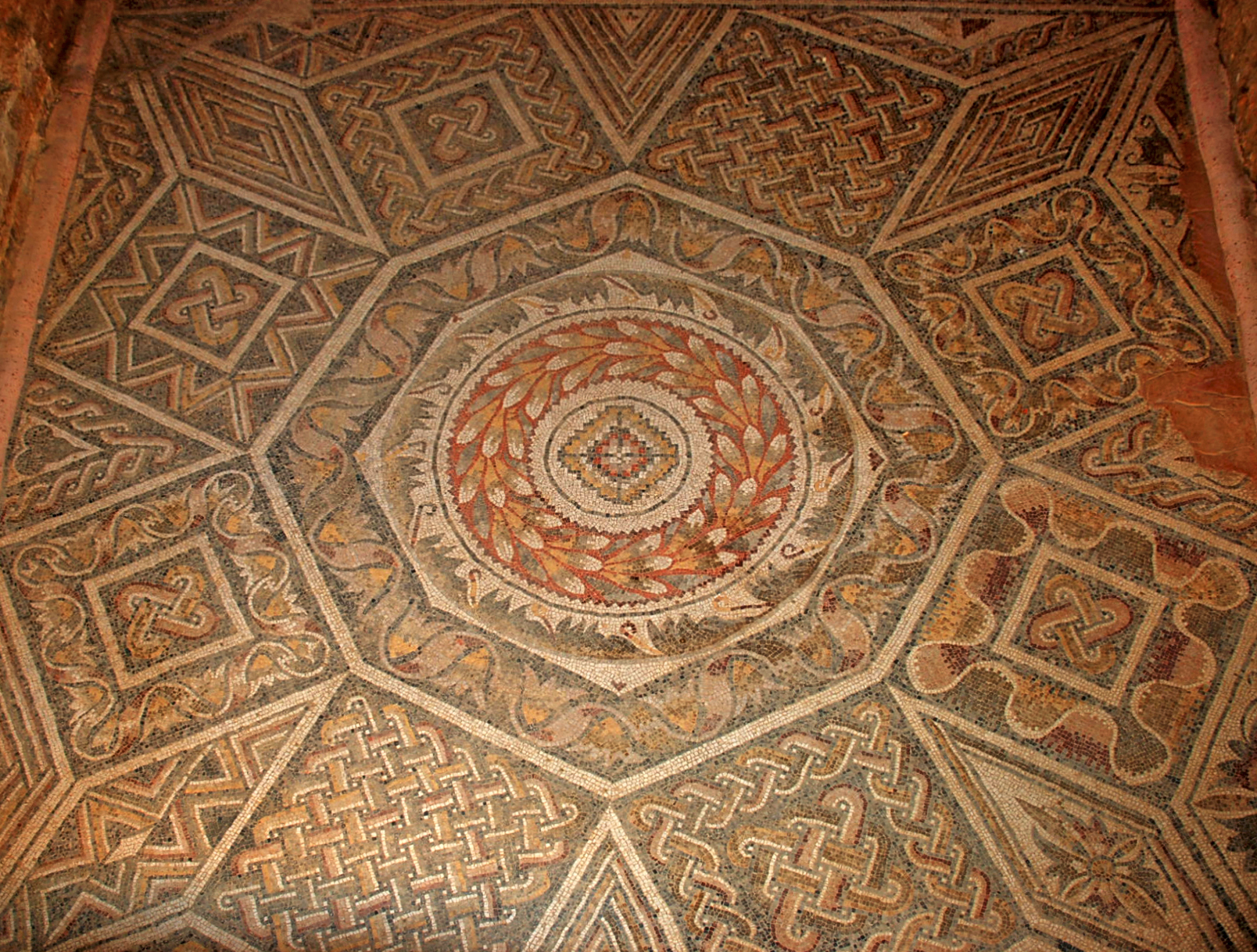 Geometric roman mosaic in roman villae of La Olmeda, Pedrosa de la Vega (Palencia, Castile and León).